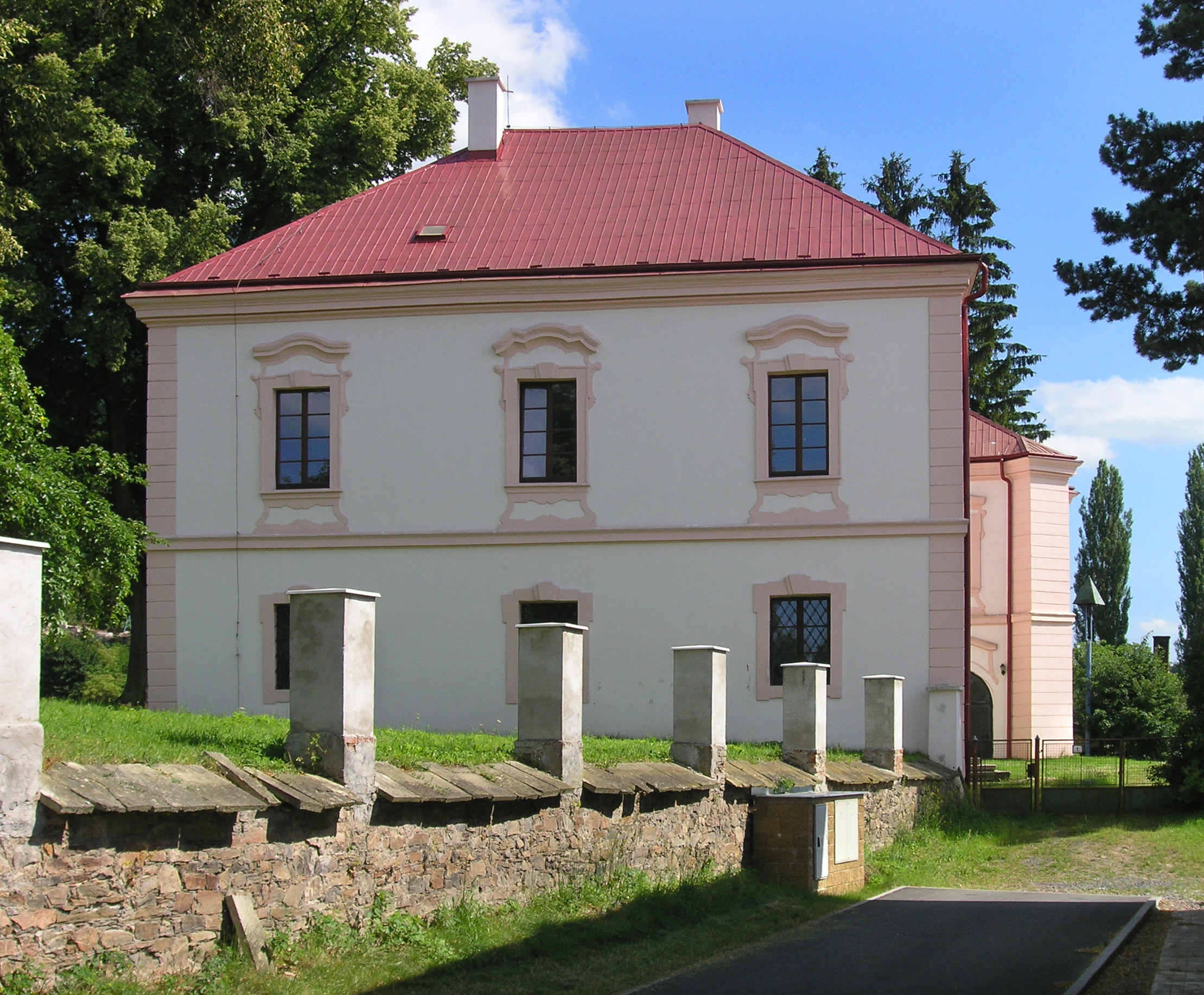 North view of Třemošnice Castle in Třemošnice, Czech Republic